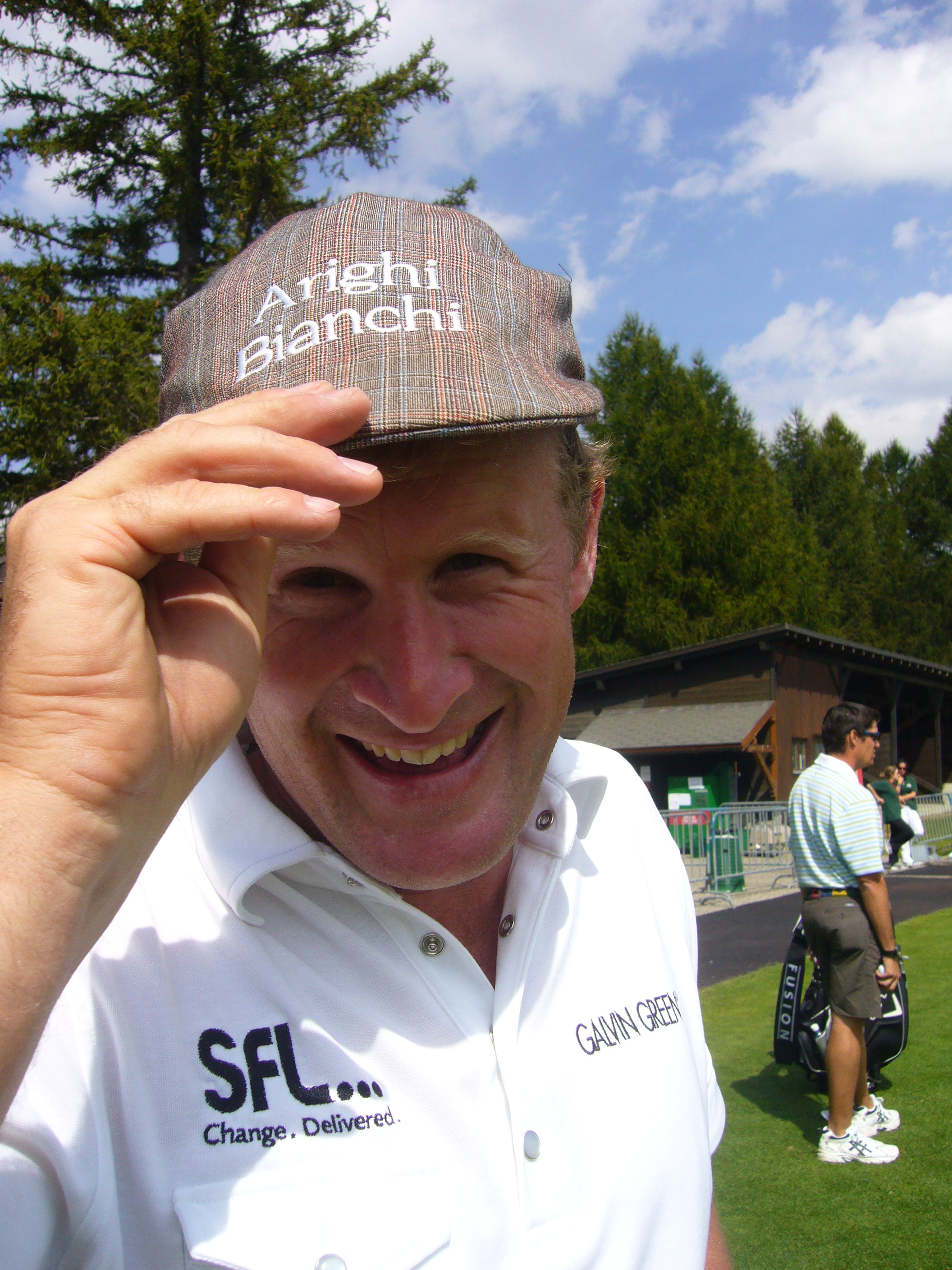 JAmie Donaldson at Swiss Open 2008